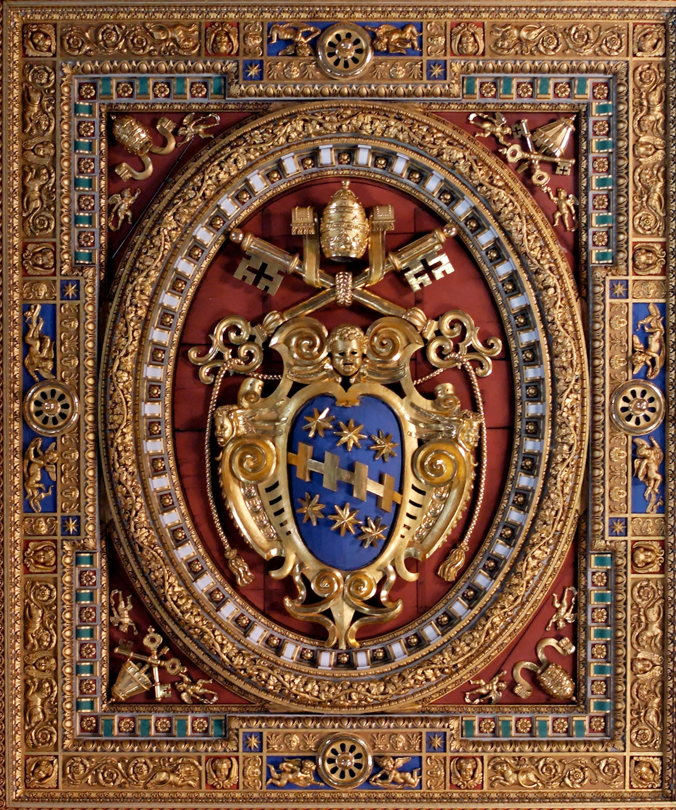 Coat of arms of Clemens VIII Aldobrandini. From the ceiling of the Basilica of St. John Lateran (Rome).